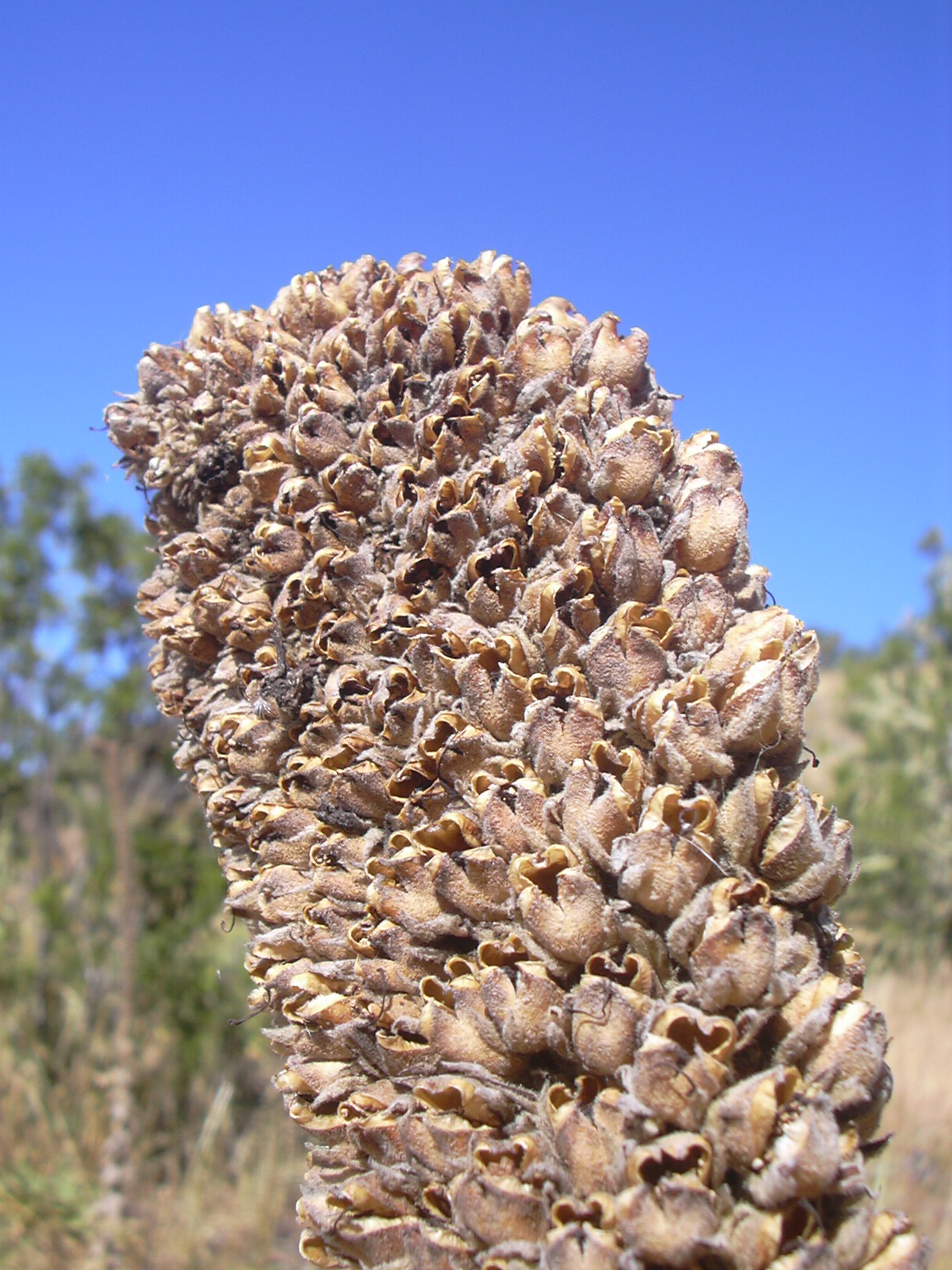 Verbascum thapsus (deformed flowerhead). Location: Hawaii, Puu Mali